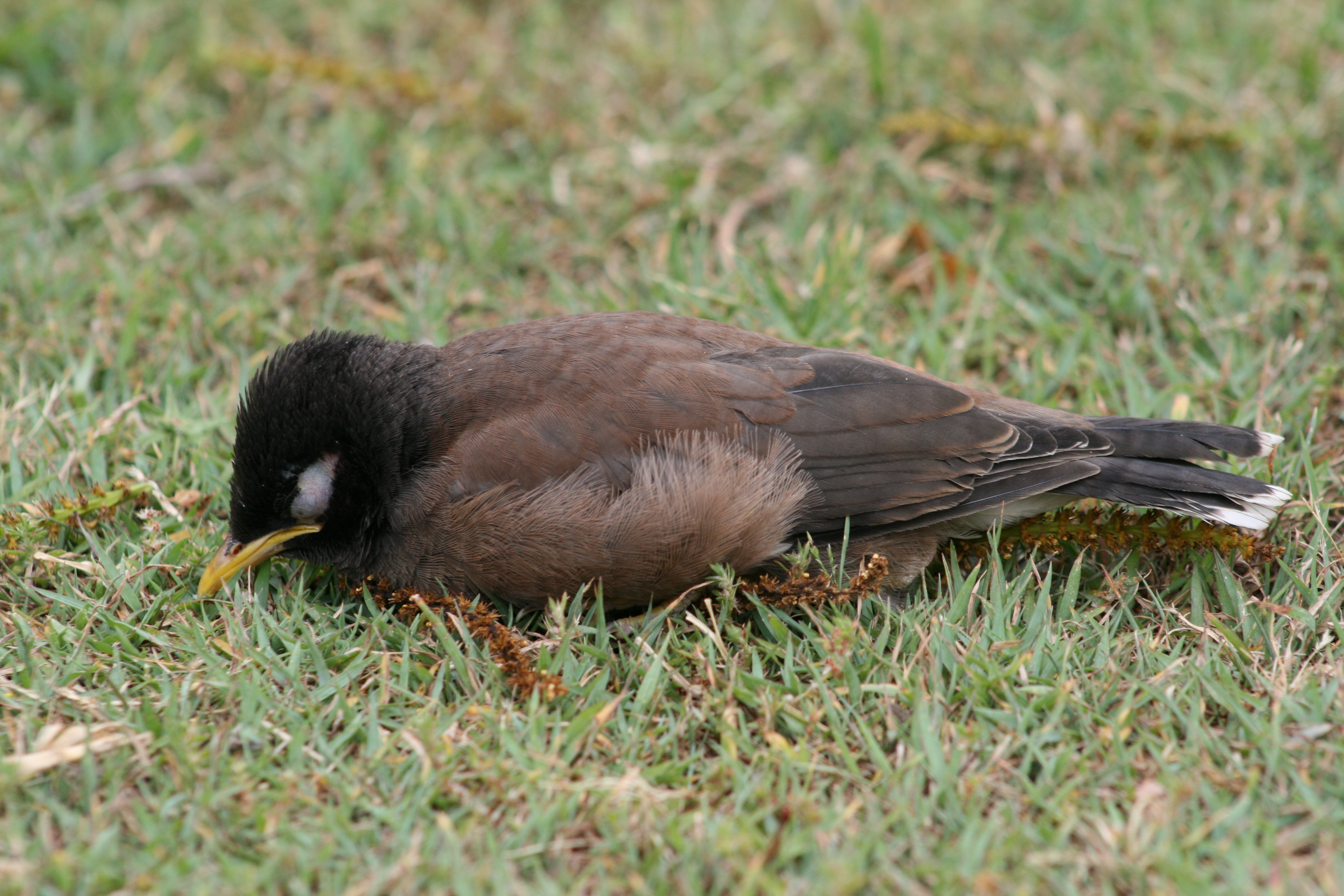 A fledgling Common Myna bird (Acridotheres tristis) resting on a lawn below its nest. It later awoke, disturbed by the photography.